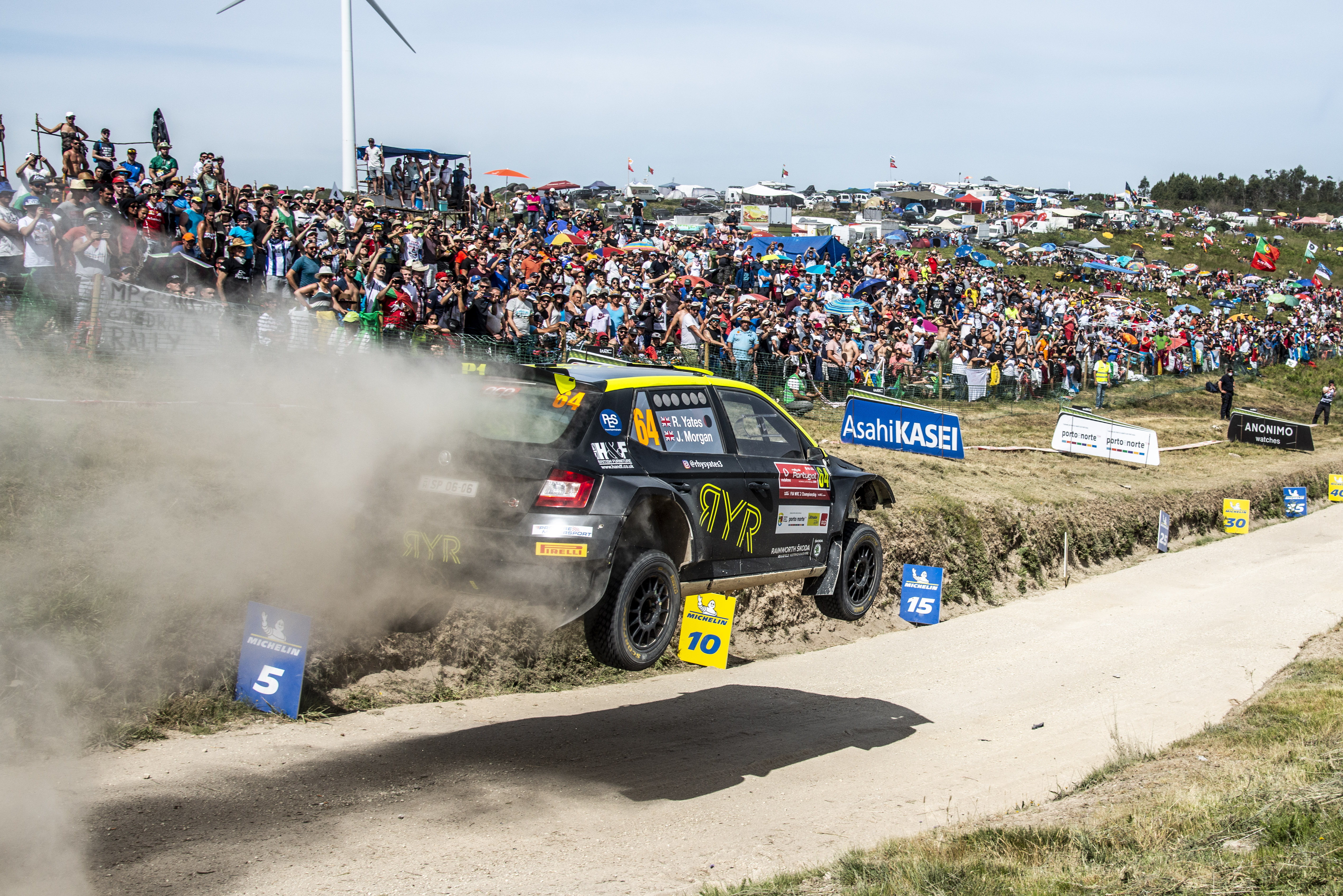 Rhys Yates